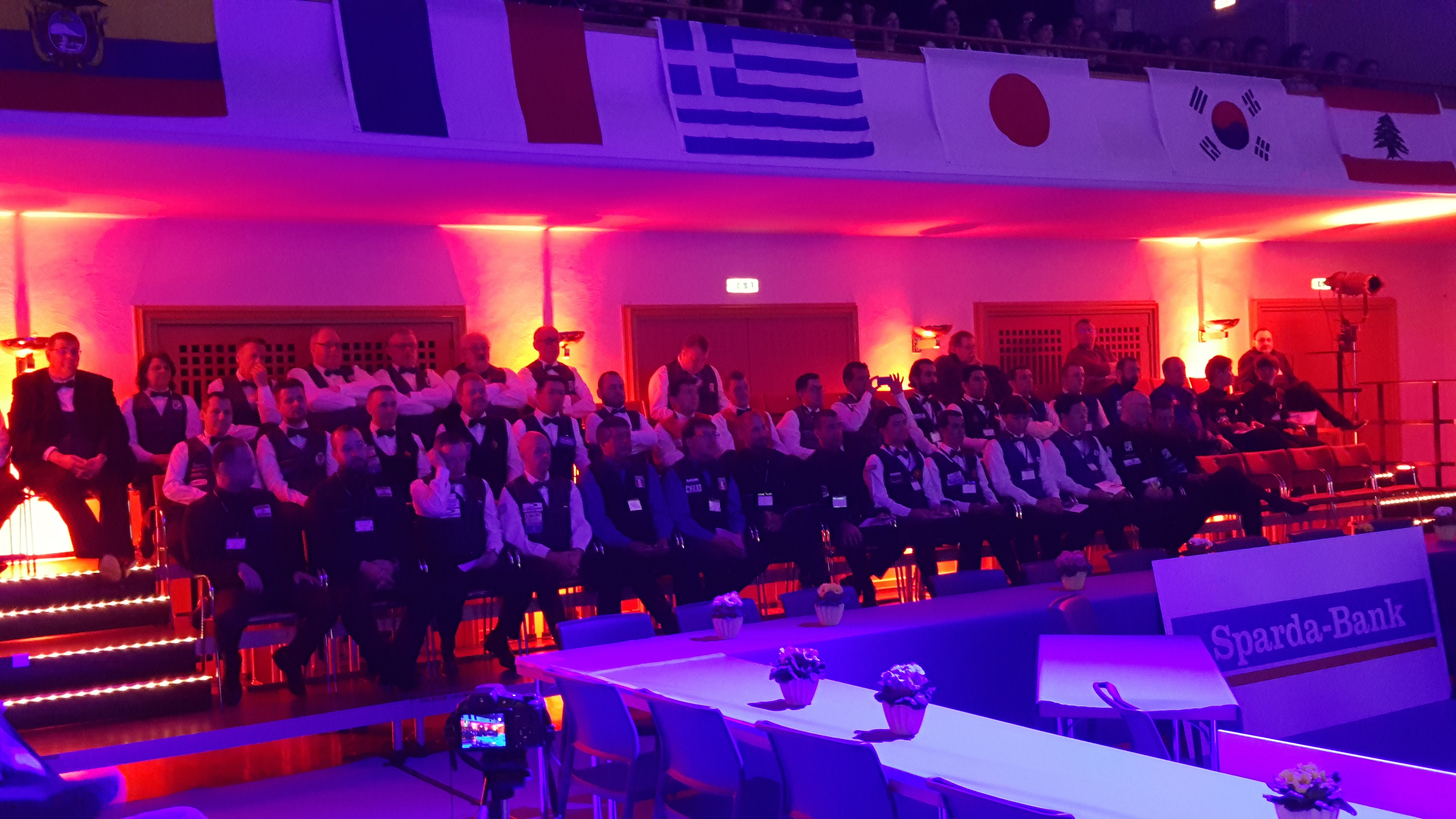 Players